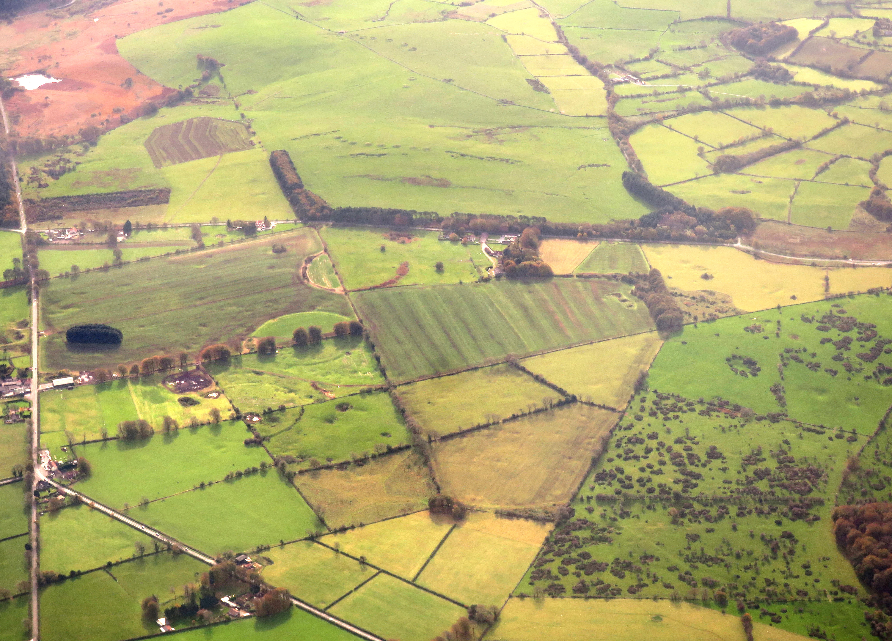 Aerial view of Priddy Circles on the Mendip Hills, including the Priddy Nine Barrows and Ashen Hill Barrow Cemeteries in the distance.